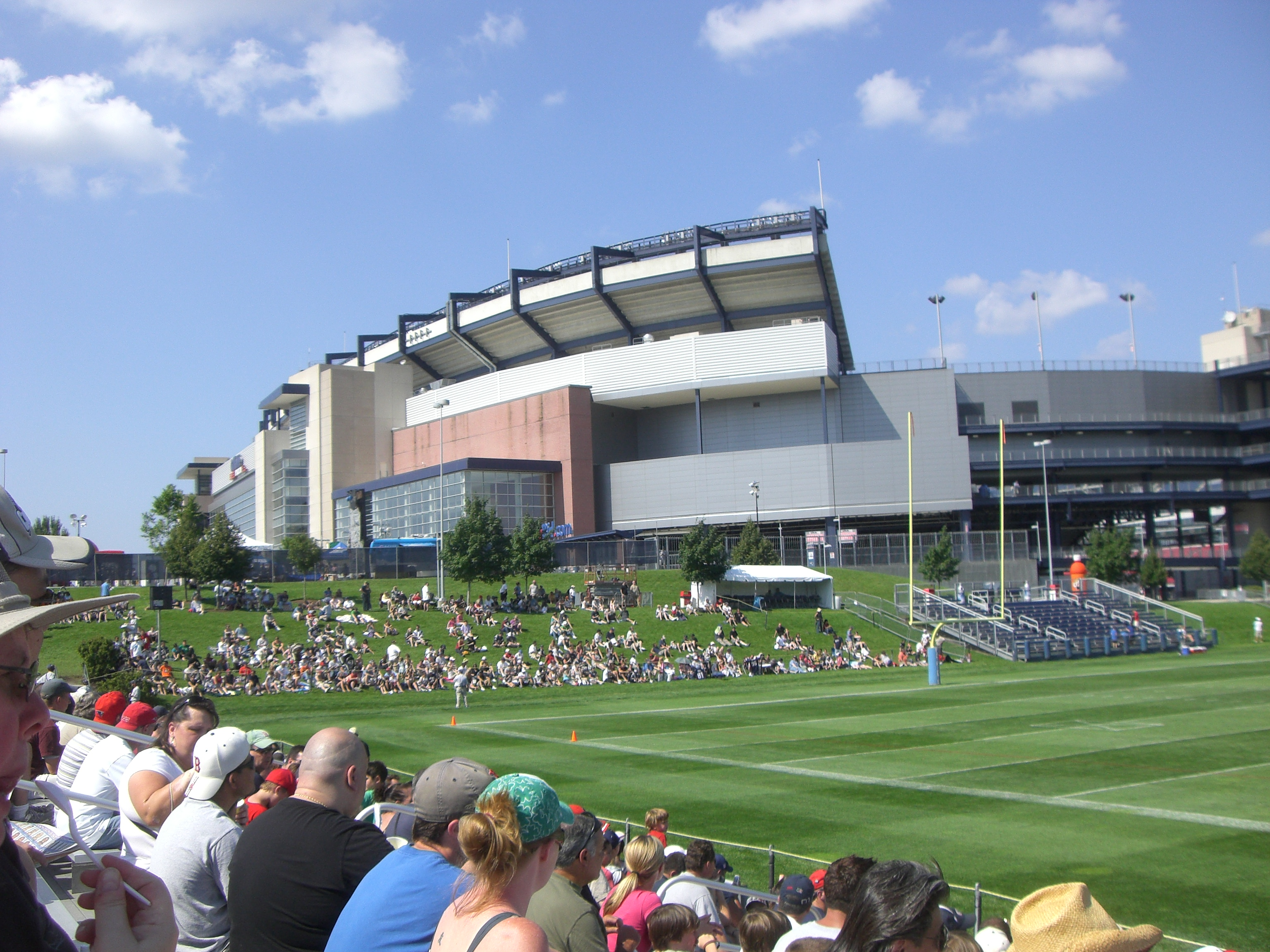 Gillette Stadium training field.